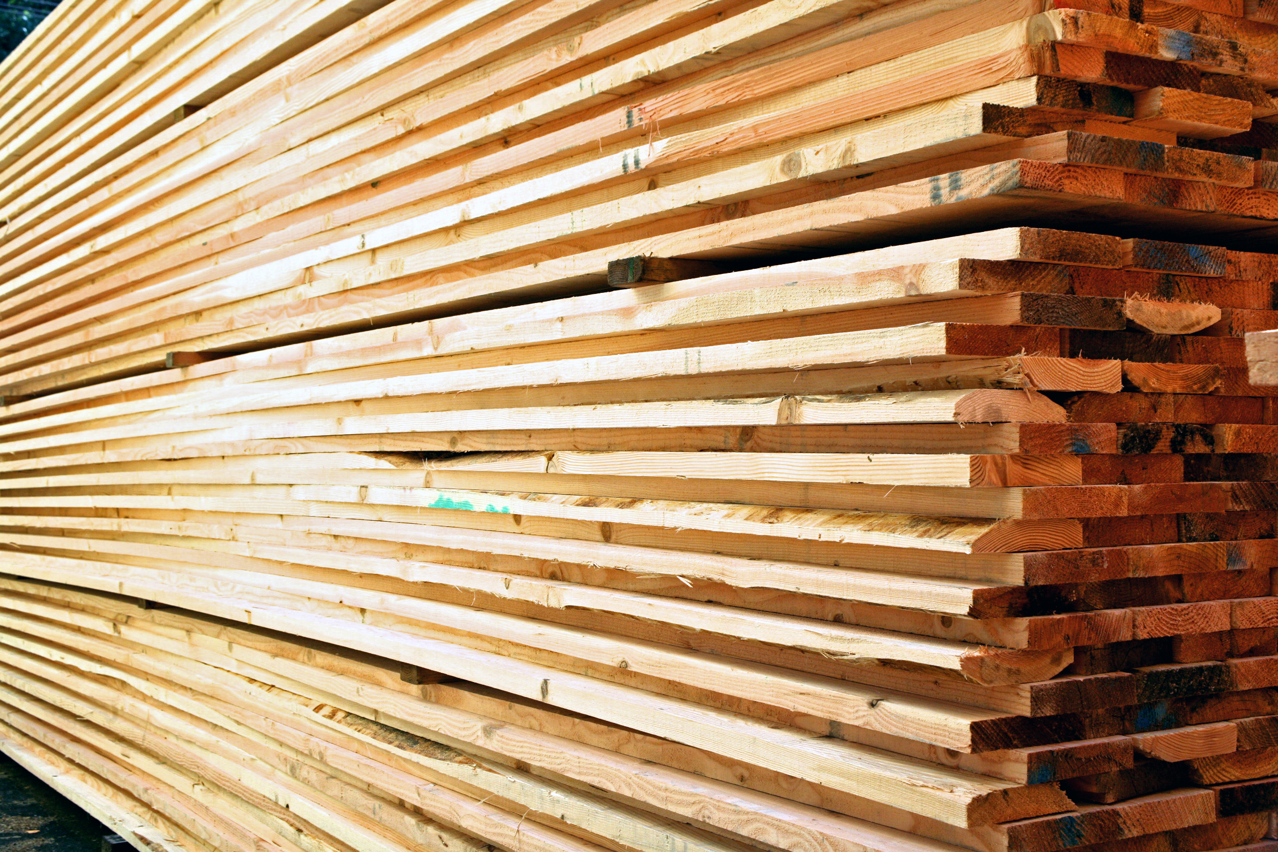 The BLM manages 2.4 million acres of forests and woodlands in western Oregon - which includes 2.2 million acres of commercial forest and 200,000 acres of woodlands. To learn more about Oregon forests, please visit us online at And to to learn more about the BLM's forestry programs and initiatives, visit us at